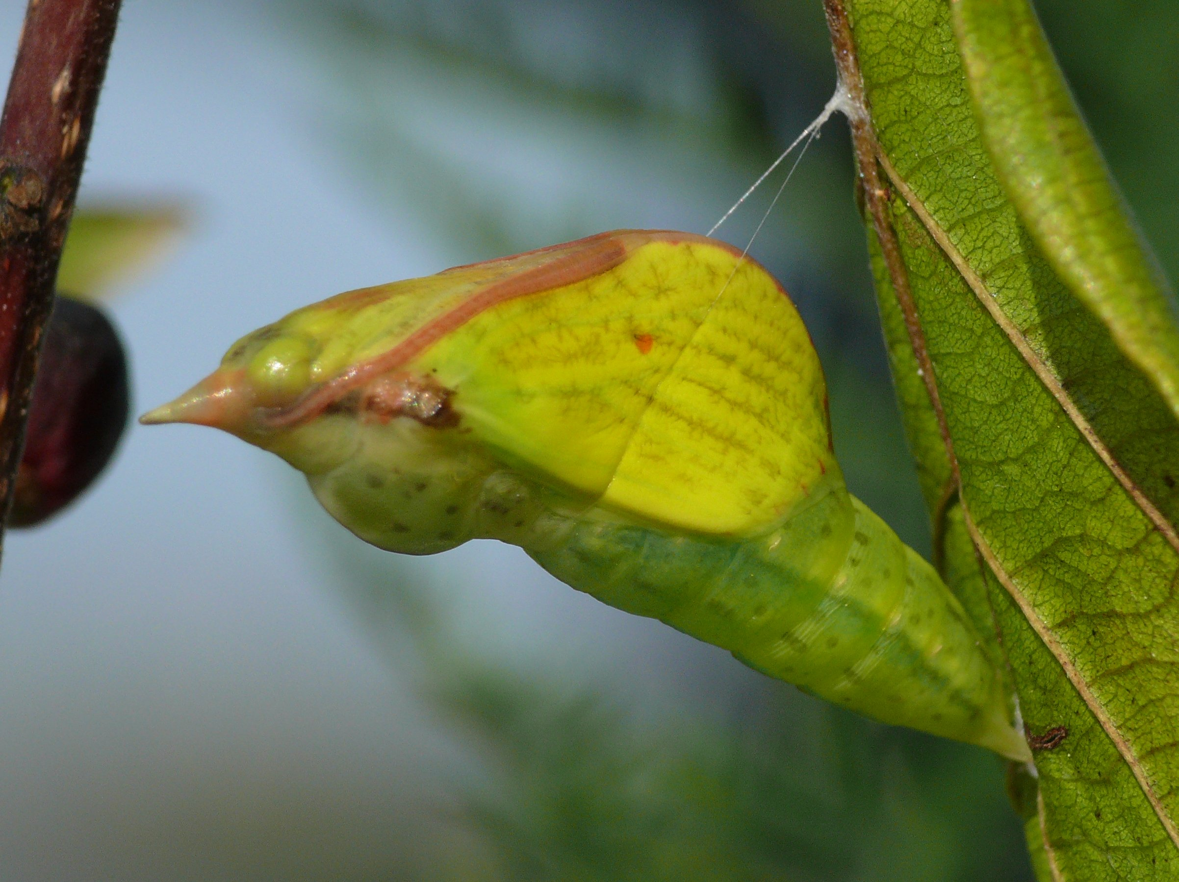 Pupa of Common Brimstone